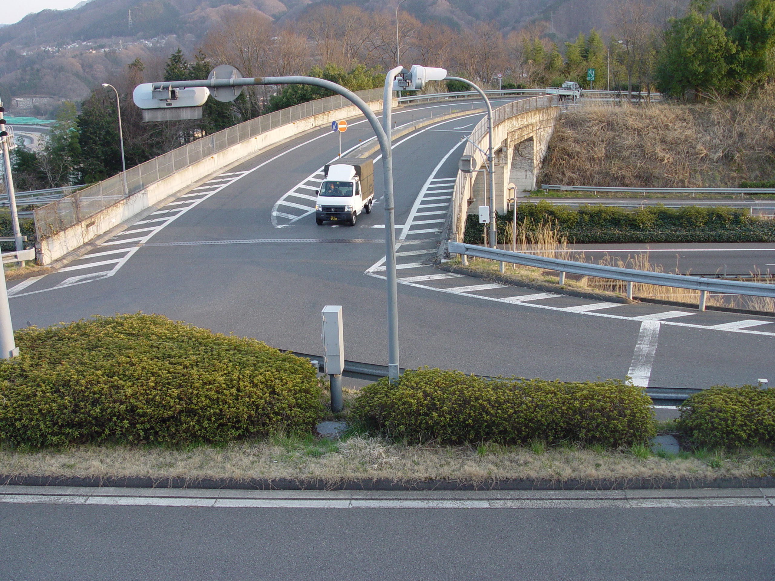 Uenohara Interchange on the Chuo Expressway, taxiways to/from the inbound line